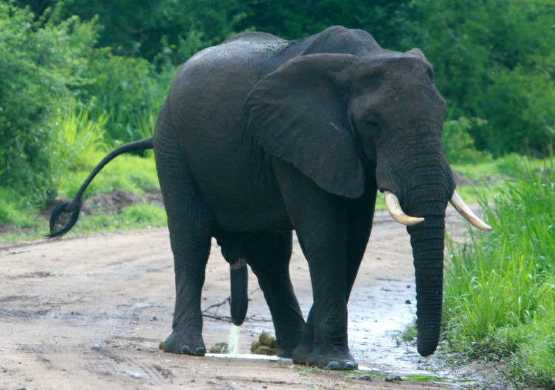 Elephant in Selous Game Reserve, Tanzania